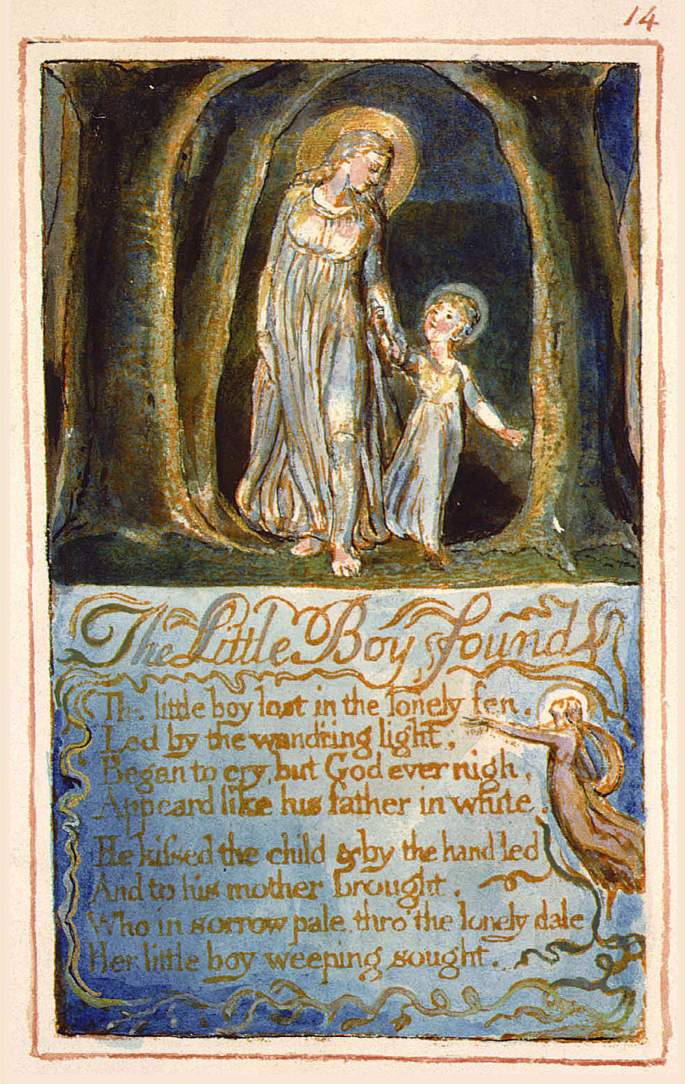 Songs of Innocence and of Experience, copy AA, object 14 (Bentley 14, Erdman 14, Keynes 14) "The Little Boy Found"